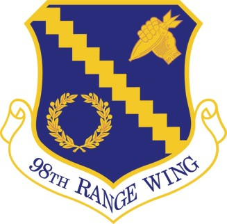 The emblem of the 98th Range Wing. Source: Nellis AFB Public Affairs.